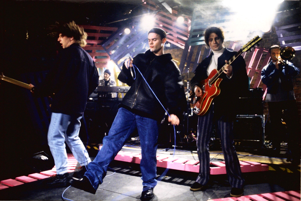 The Bridewells performing live on "The Warehouse" tv show